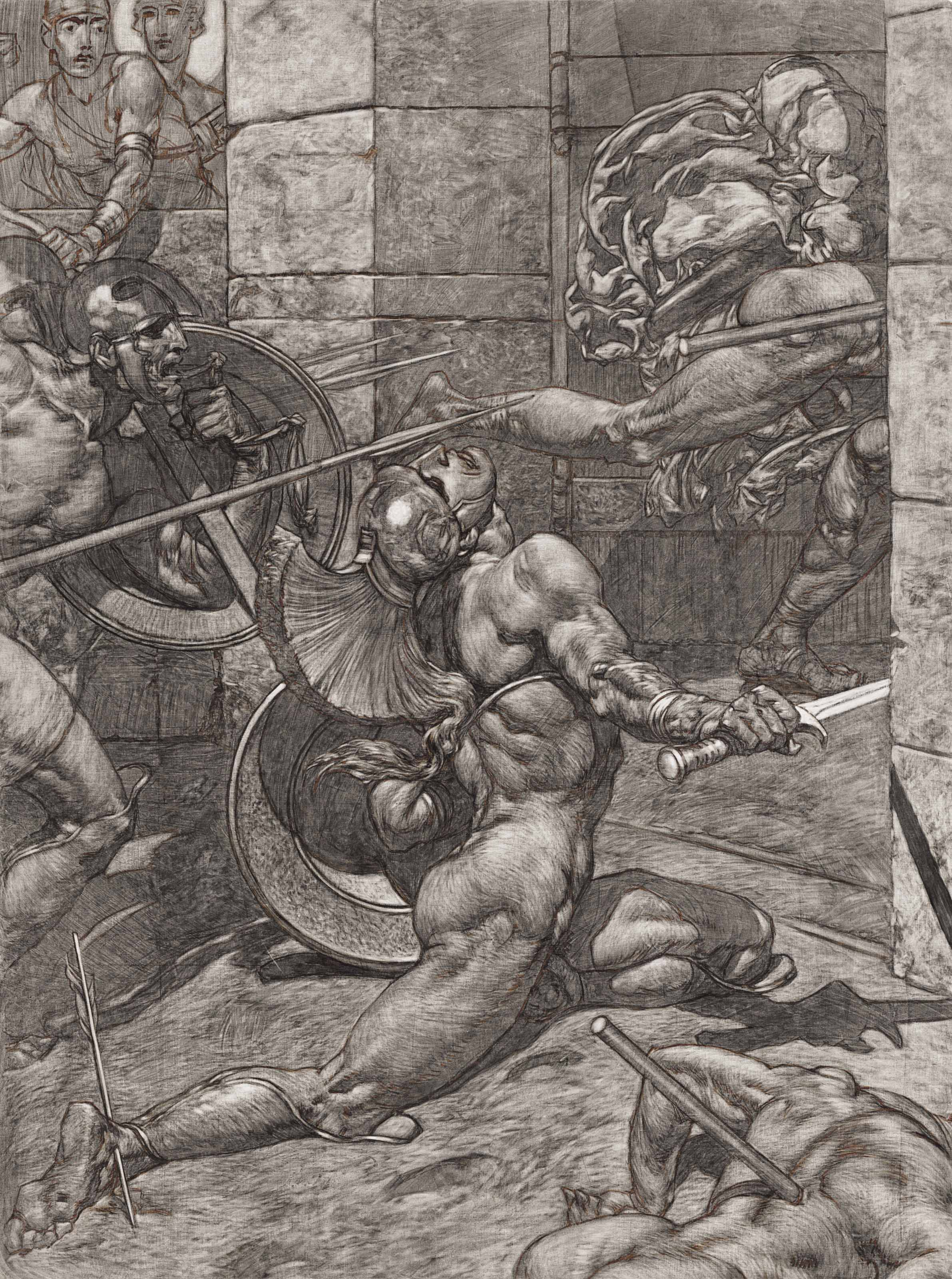 The Death of Achilles by Alexander Rothaug (German, 1870-1946). Brown ink and oil en grissale over traces of black chalk on canvas.